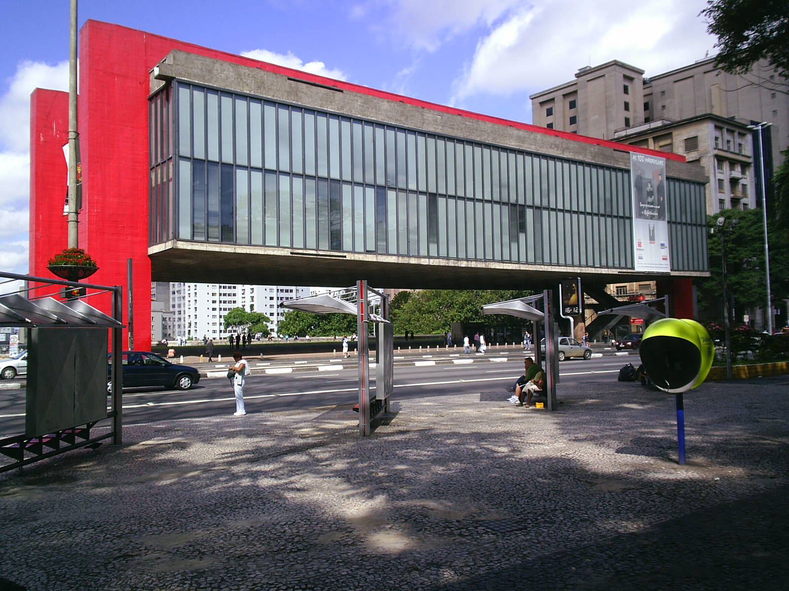 Museum of Art in São Paulo, designed by Lina Bo Bardi in the 50s. Picture taken by User:Gaf.arq.